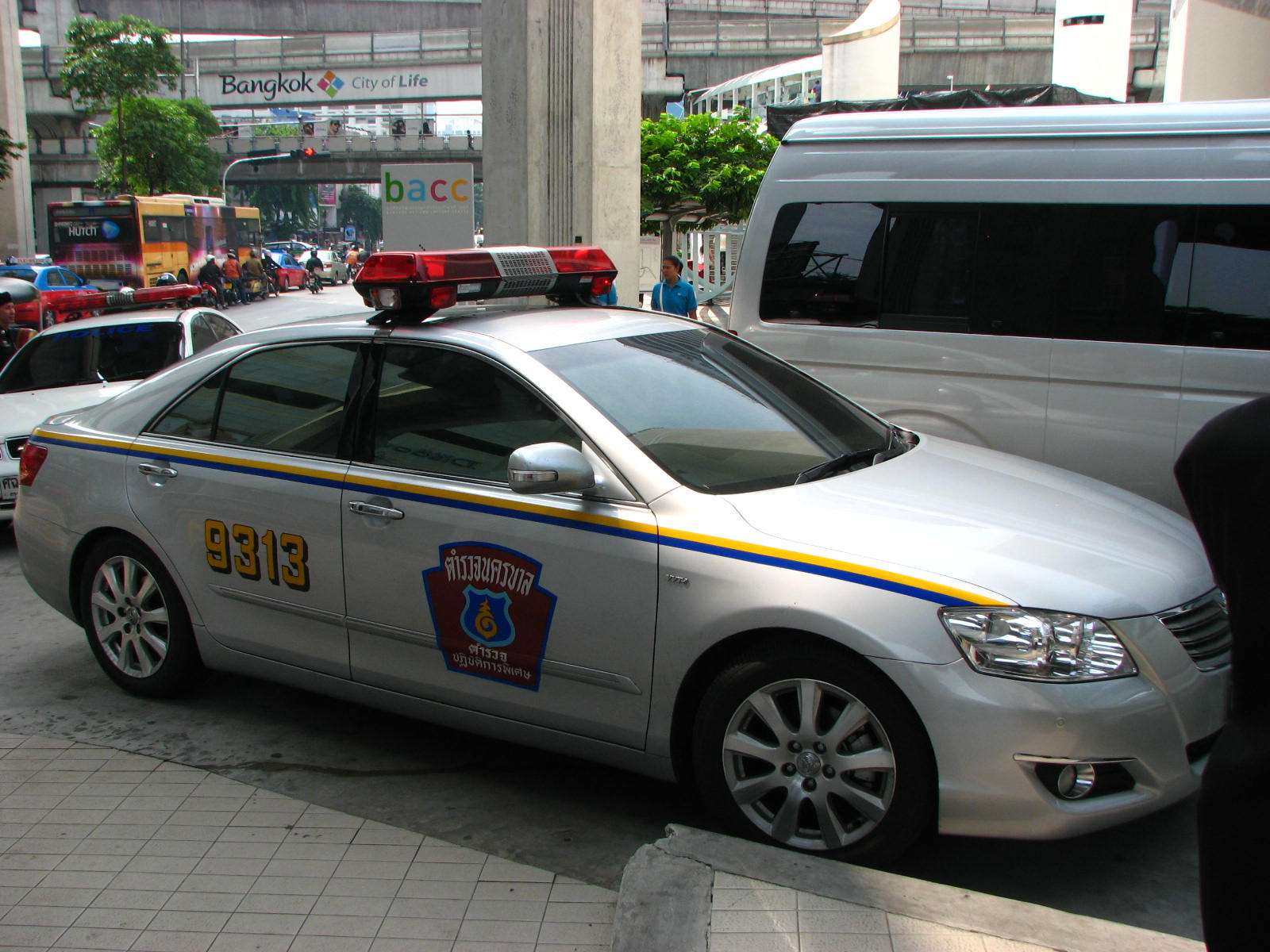 Thailand Police Highway Patrol Toyota Camry VVTi